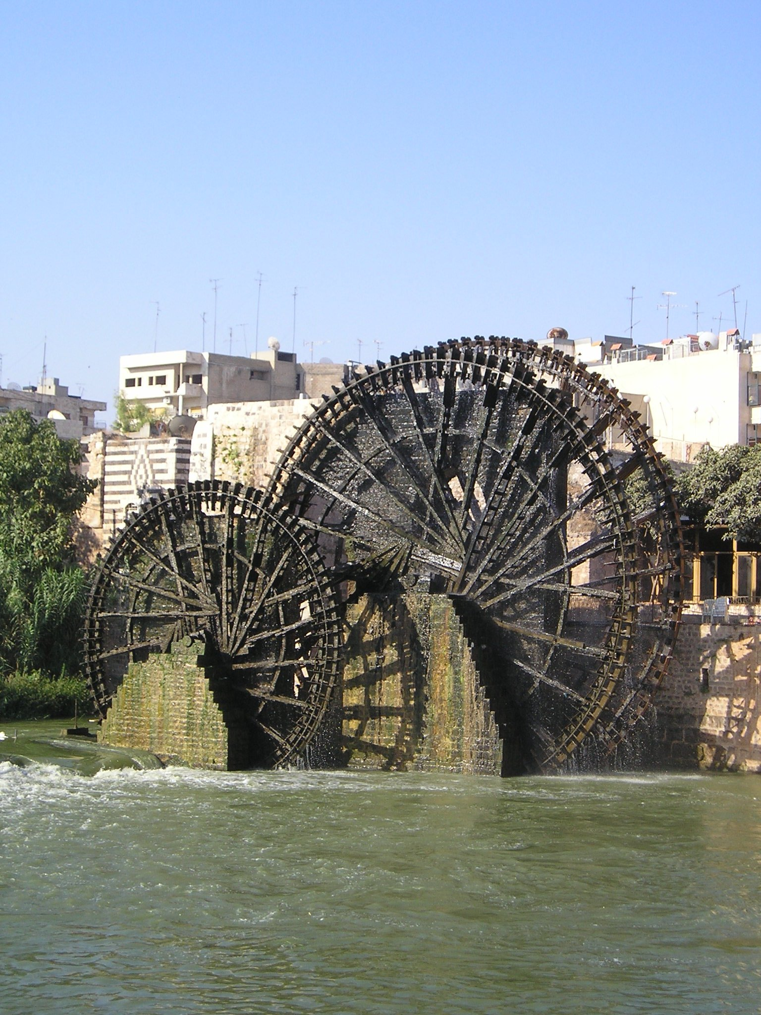 Hama, Syria - a view of 3 norias in front of the Azem palace. From left to right their names are Al-Jabariyya, As-Sahuniyya and Al-Kaylaniyya.